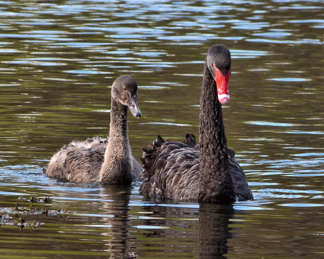 An adult Black Swan with a cygnet swimming in Taylor Dam, near Blenheim, Marlborough, New Zealand.